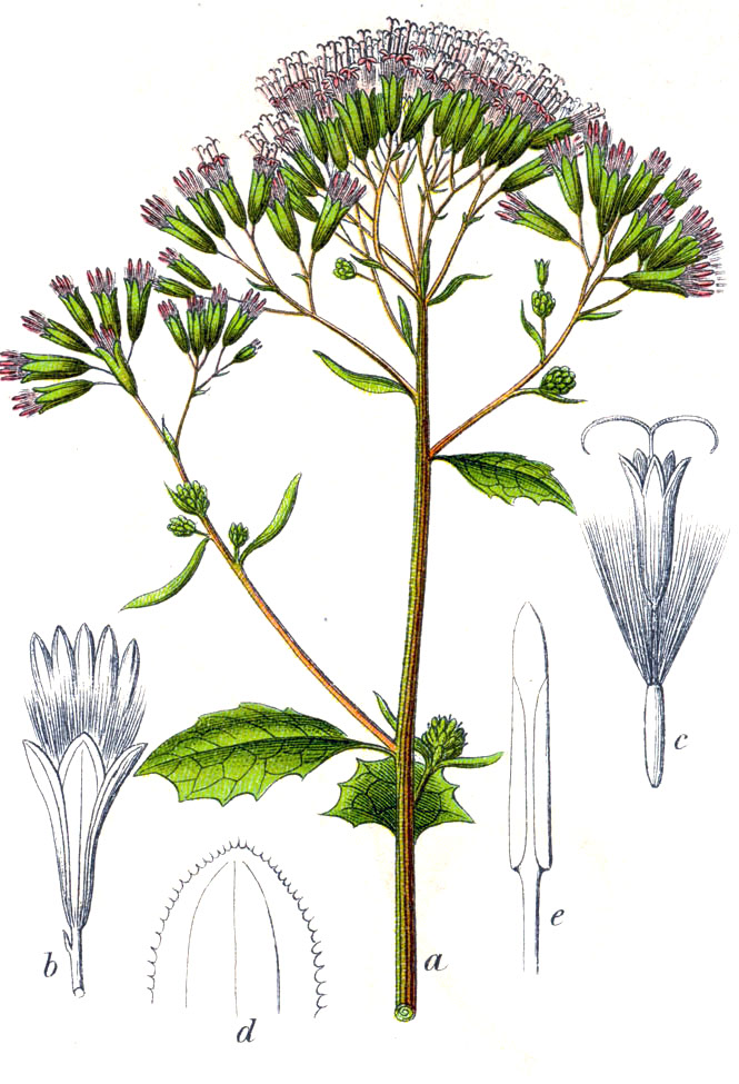 Adenostyles alliariae (Gouan) A.Kern. , syn. Adenostyles albifrons (L.f.) Rchb. Original Caption Grauer Alpendosten, Adenostyles albifrons